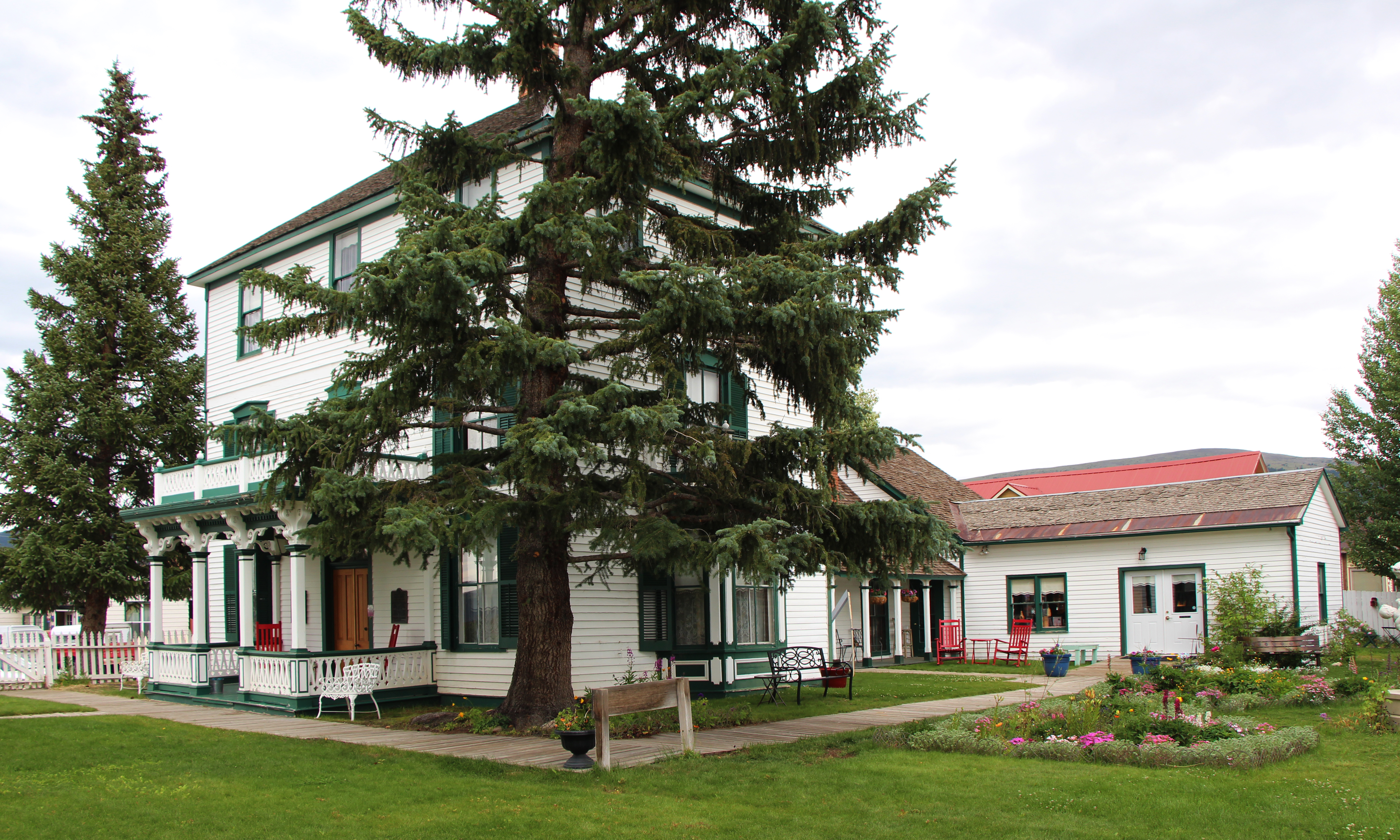 The Healy House, 912 Harrison St, Leadville, CO